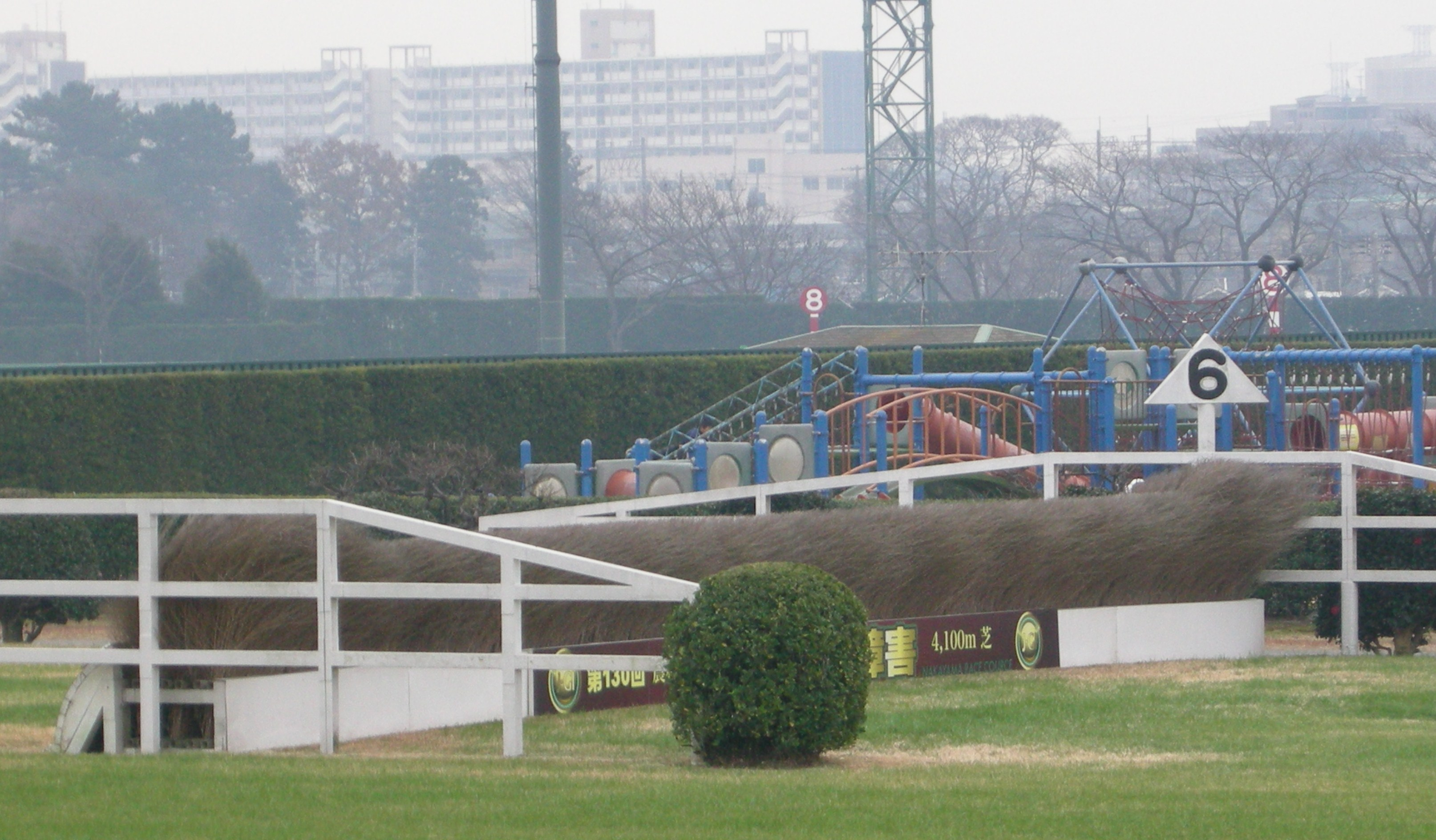 Brush(racecourse)